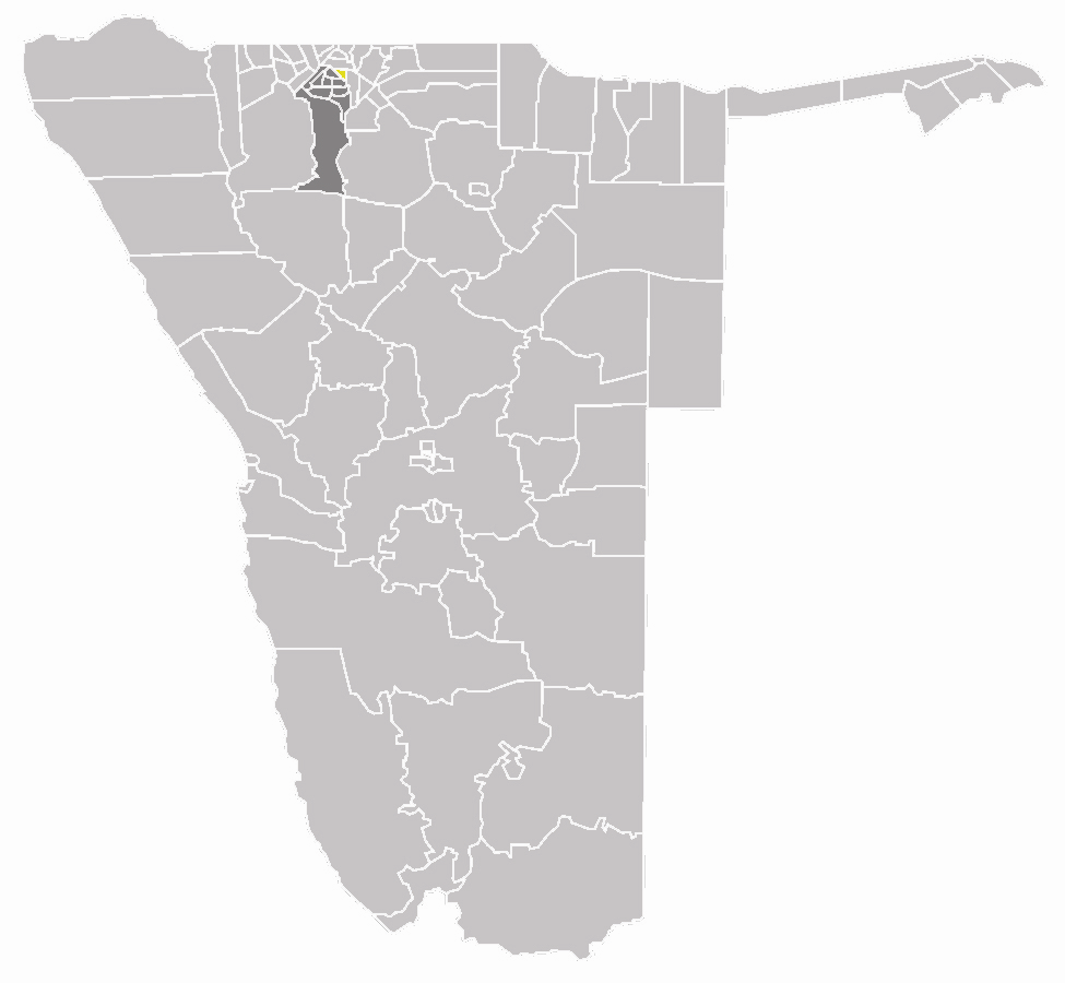 map of the Okaku constituency within the Oshana region, Namibia